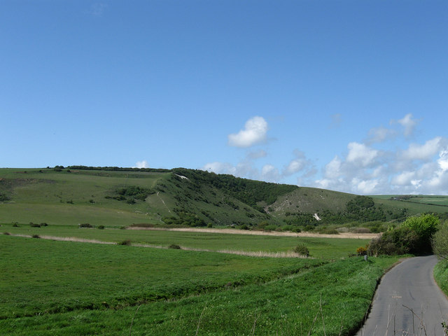 White Horse Chalk Figure, Hindover Hill Viewed from the edge of the Litlington Road car park and looking across the Cuckmere flood plain. The figue was cut in 1924 by three local men.